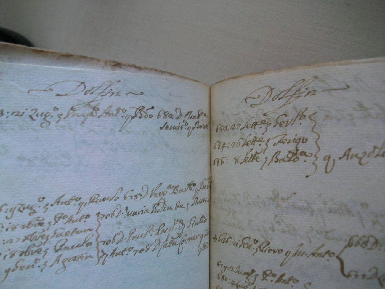 The Dolfin Family members, updated ca. 1700, in "LIBRO DE' NOBILI VENETI", a venetian manuscript about Nobility.